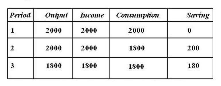 Circular Flow of Income effects of saving